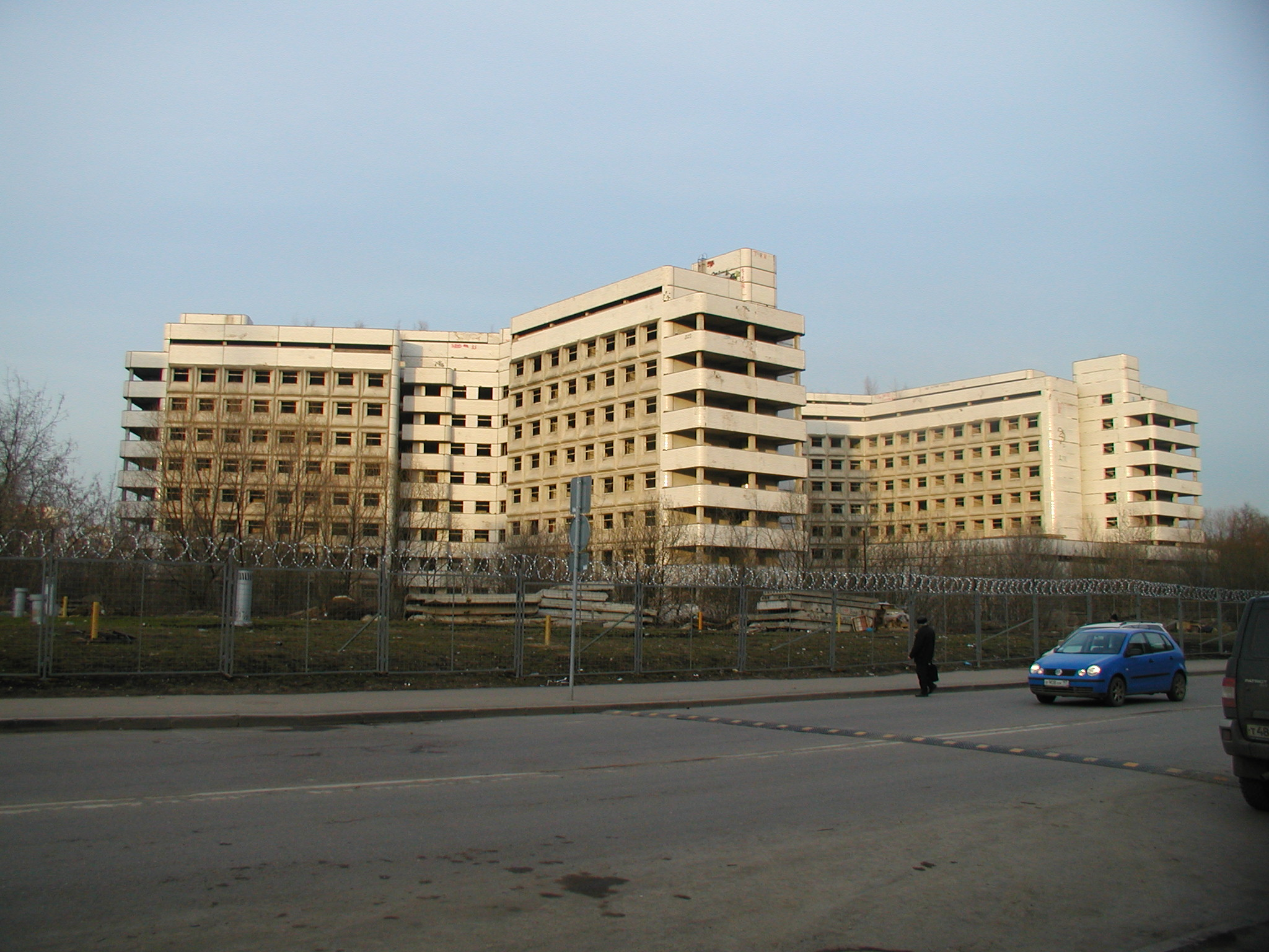 Abandoned unfinished hospital building in Khovrino district, Moscow, Russia